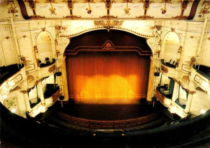 Photo, taken by the uploader, in about 2000, of the Buxton Opera House stage and orchestra pit.